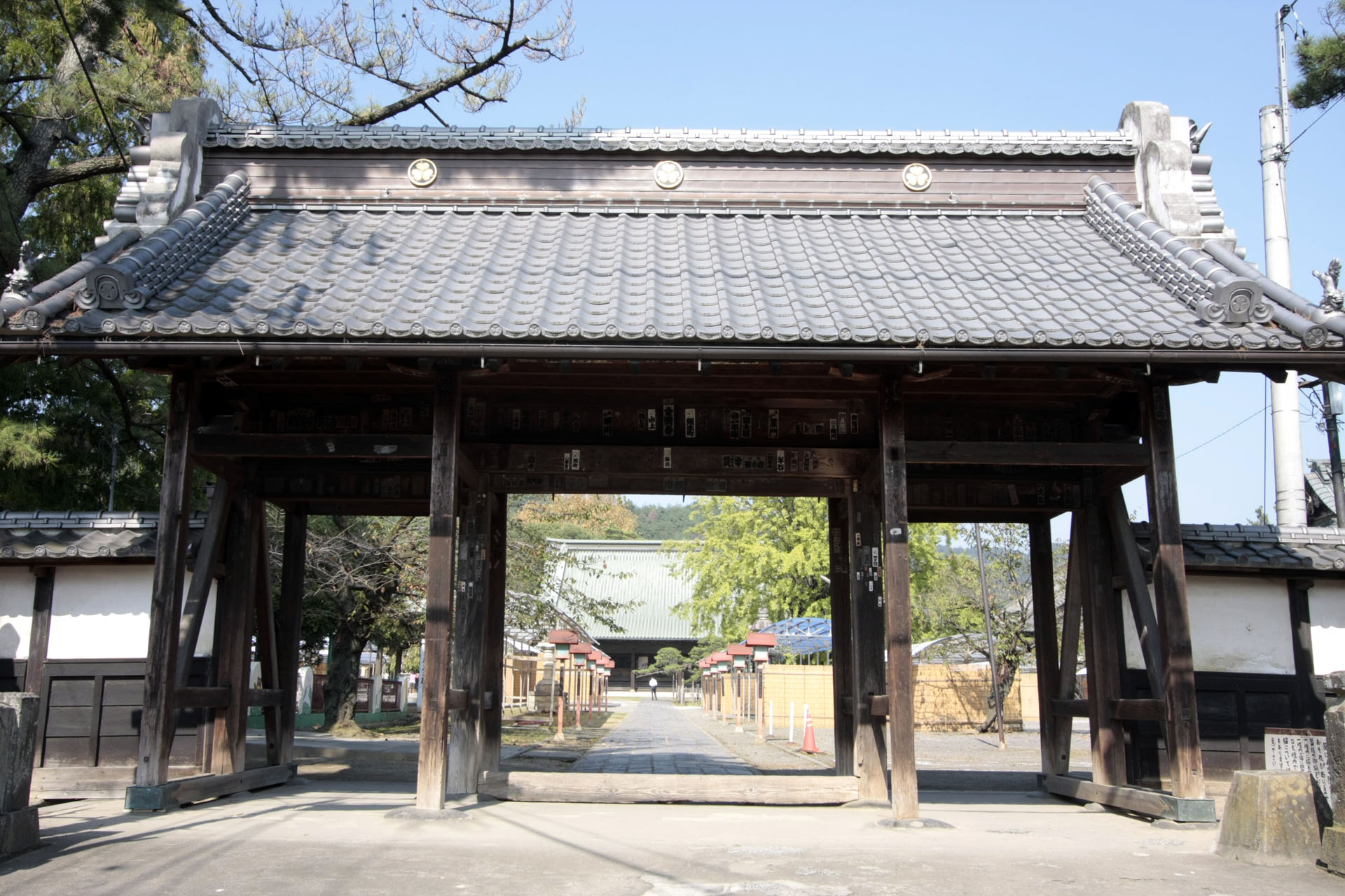 Daikoin, Ōta,_Gunma, Japan.